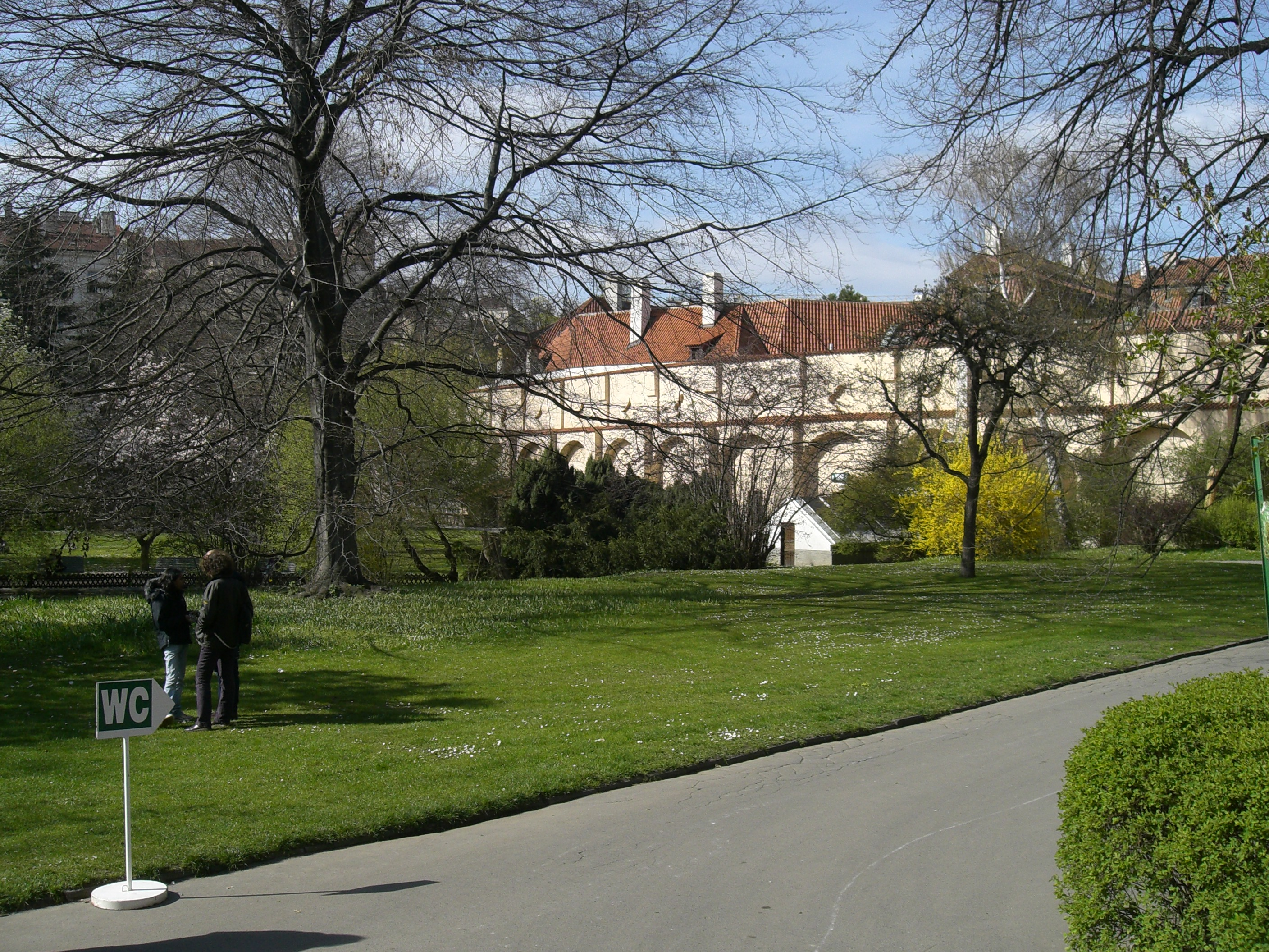 Vojanovy sady, Prague, Czech Republic